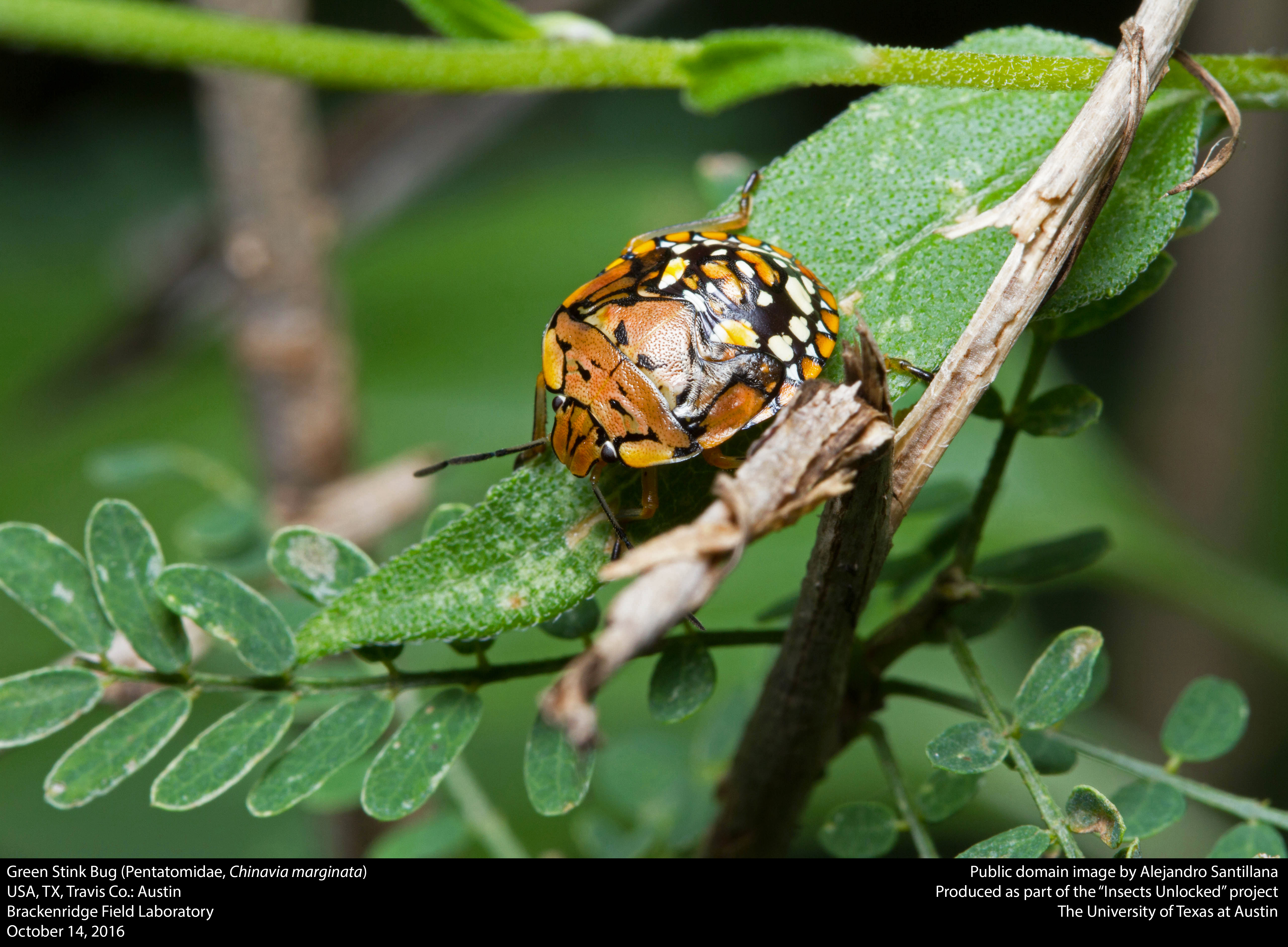 USA, TX, Travis Co.: Austin Brackenridge Field Laboratory 14-x-2016